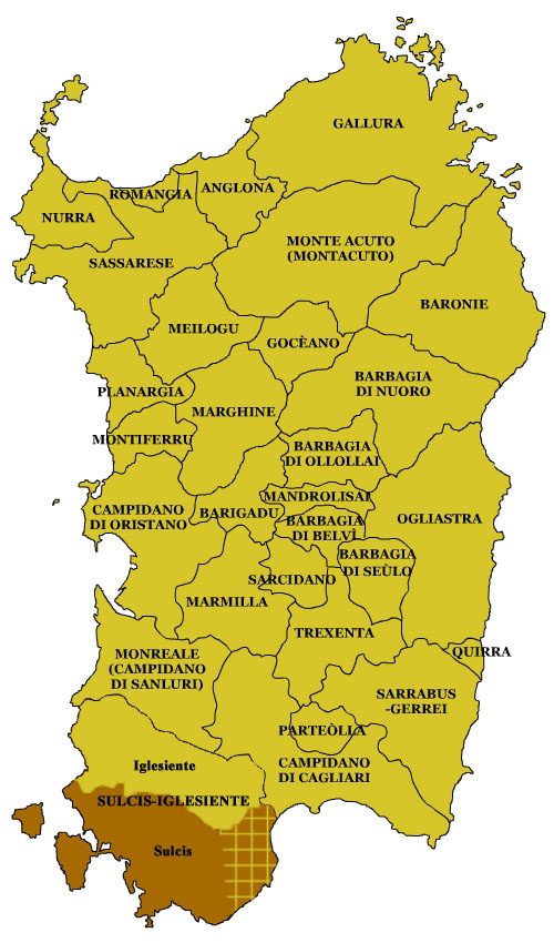 Sardinian subregions - Sulcis Map (approximate extension). The area marked with the grid in some theories is considered part of the subregione, in others no